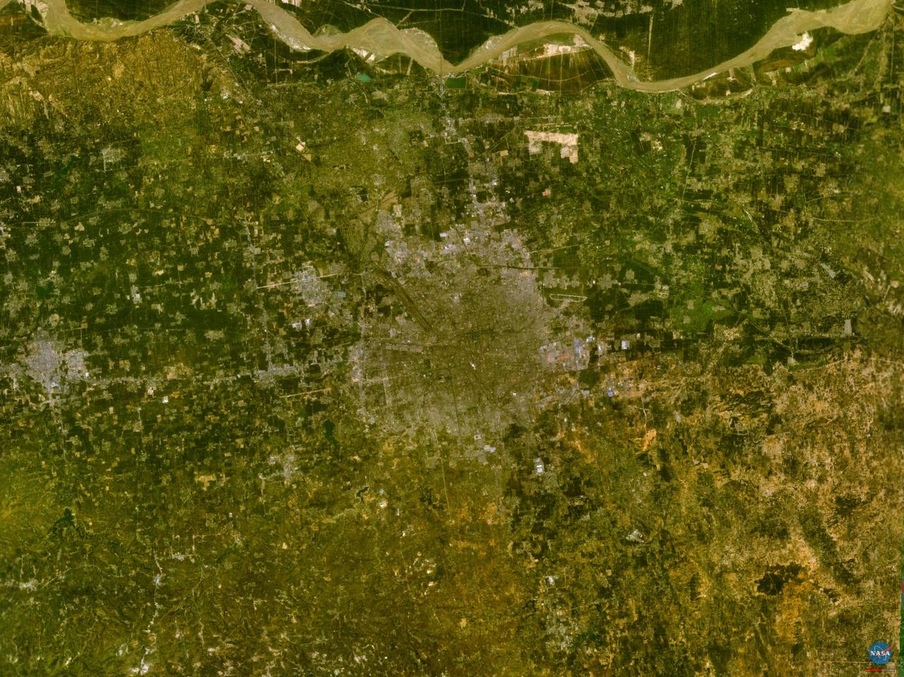 Zhengzhou, China. Satellite view.